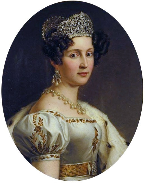 Portrait of Therese Queen of Bavaria, princess of Saxe-Hildburghausen